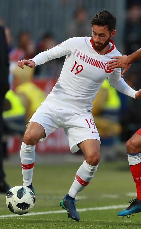 Yunus Mallı